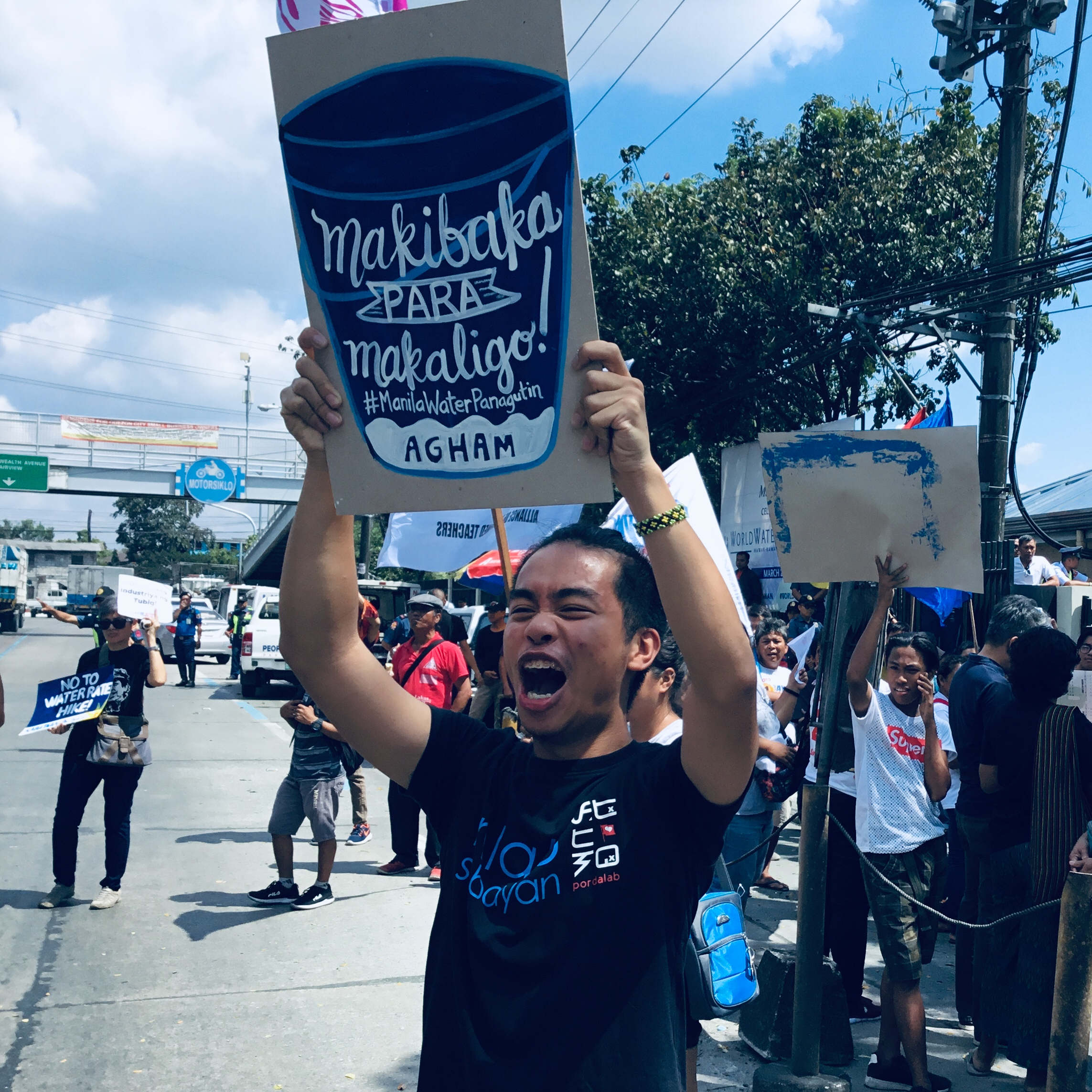 Water Crisis Rally at MWSS March 15, 2019